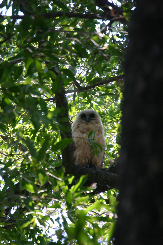 Pel's Fishing-owl (Scotopelia peli) , Okavango Delta, Botswana